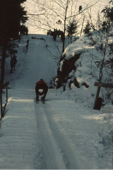 Bildet er tatt i overrennet i Jonsmyrbakken